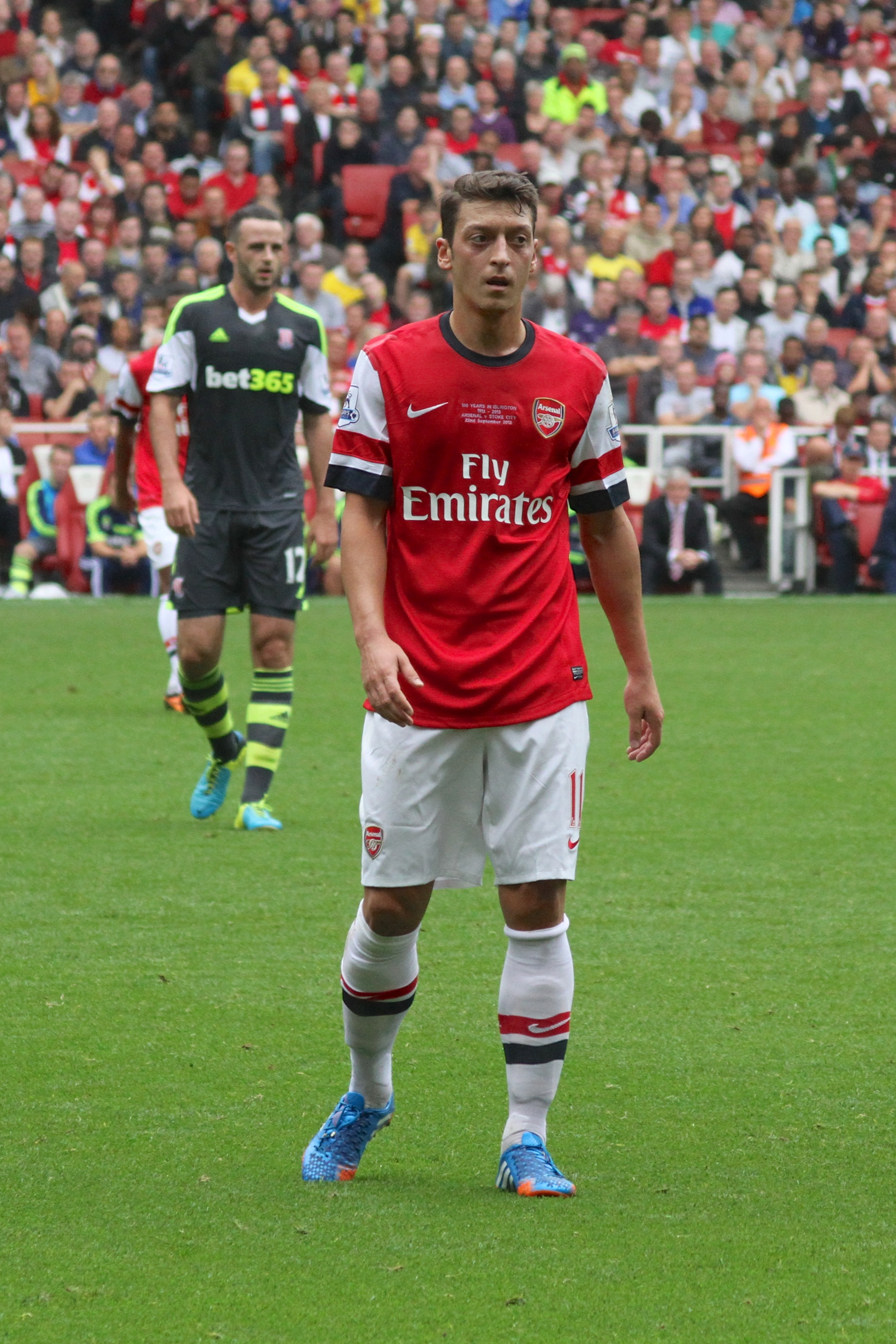 Mesut Özil playing for Arsenal.